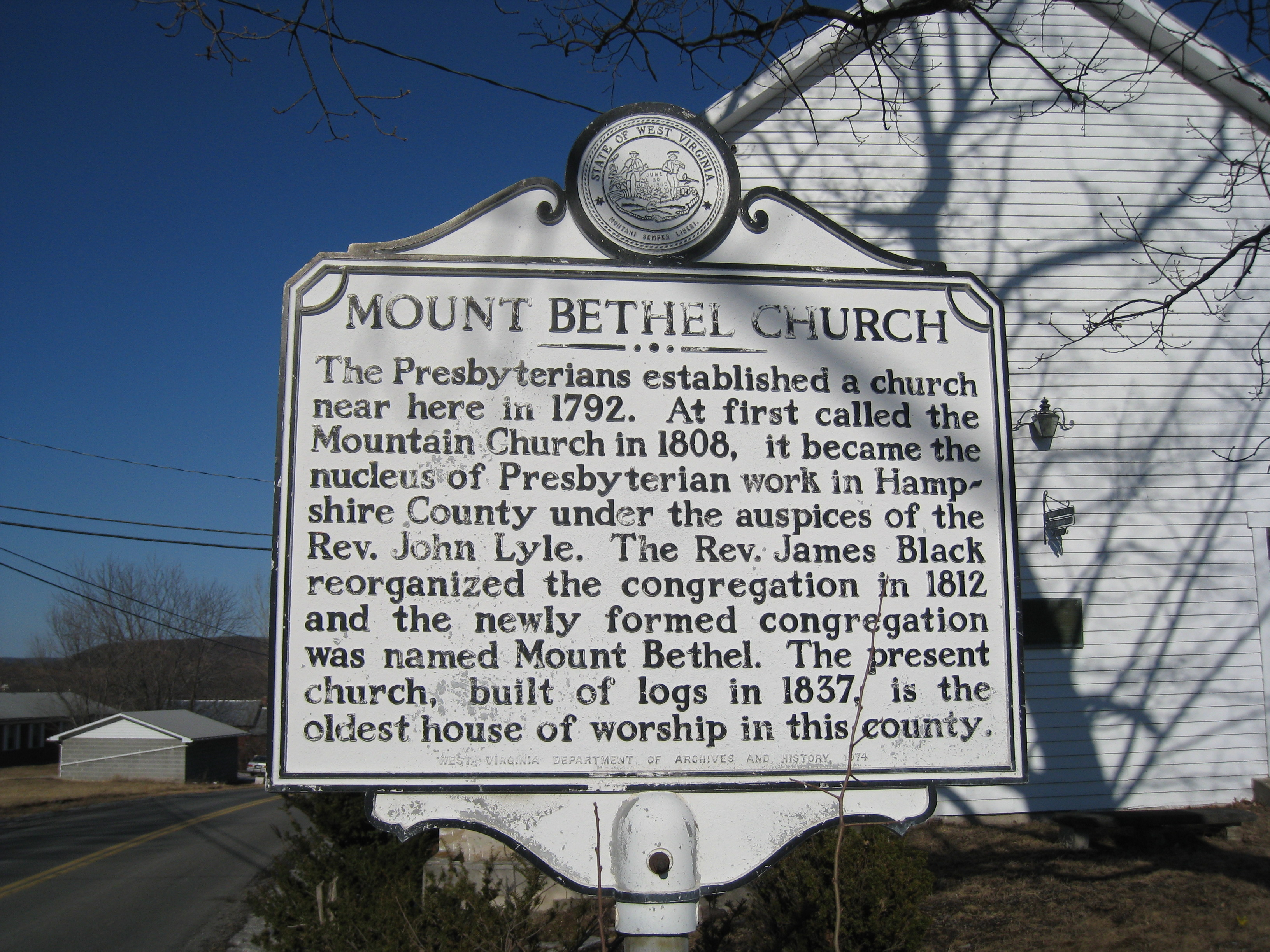 Mount Bethel Church along Jersey Mountain Road (County Route 5) in Three Churches, West Virginia, United States.